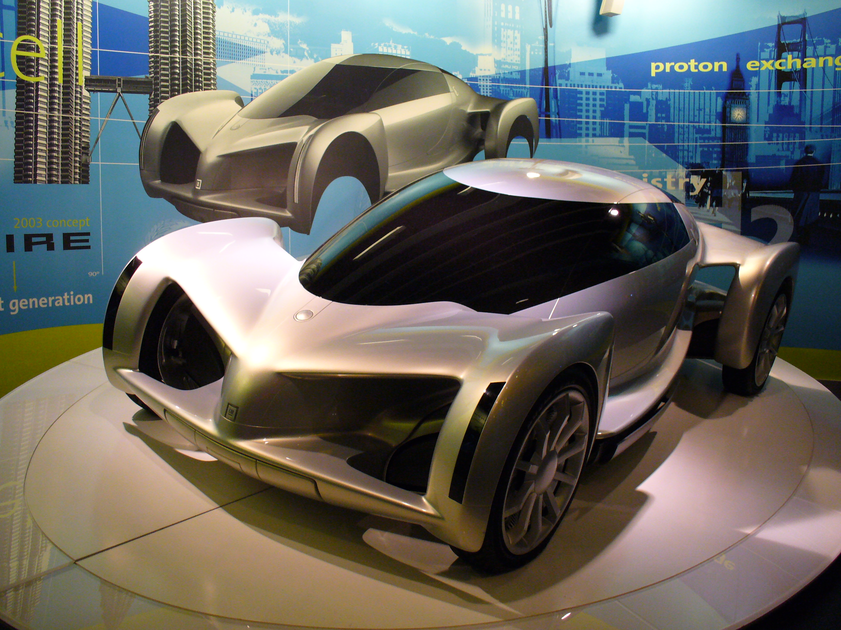 I am the originator of this photo. I hold the copyright. I release it to the public domain. This photo depicts a 2003 General Motors concept car on display at the Test Track attraction at Disney World's Epcot.